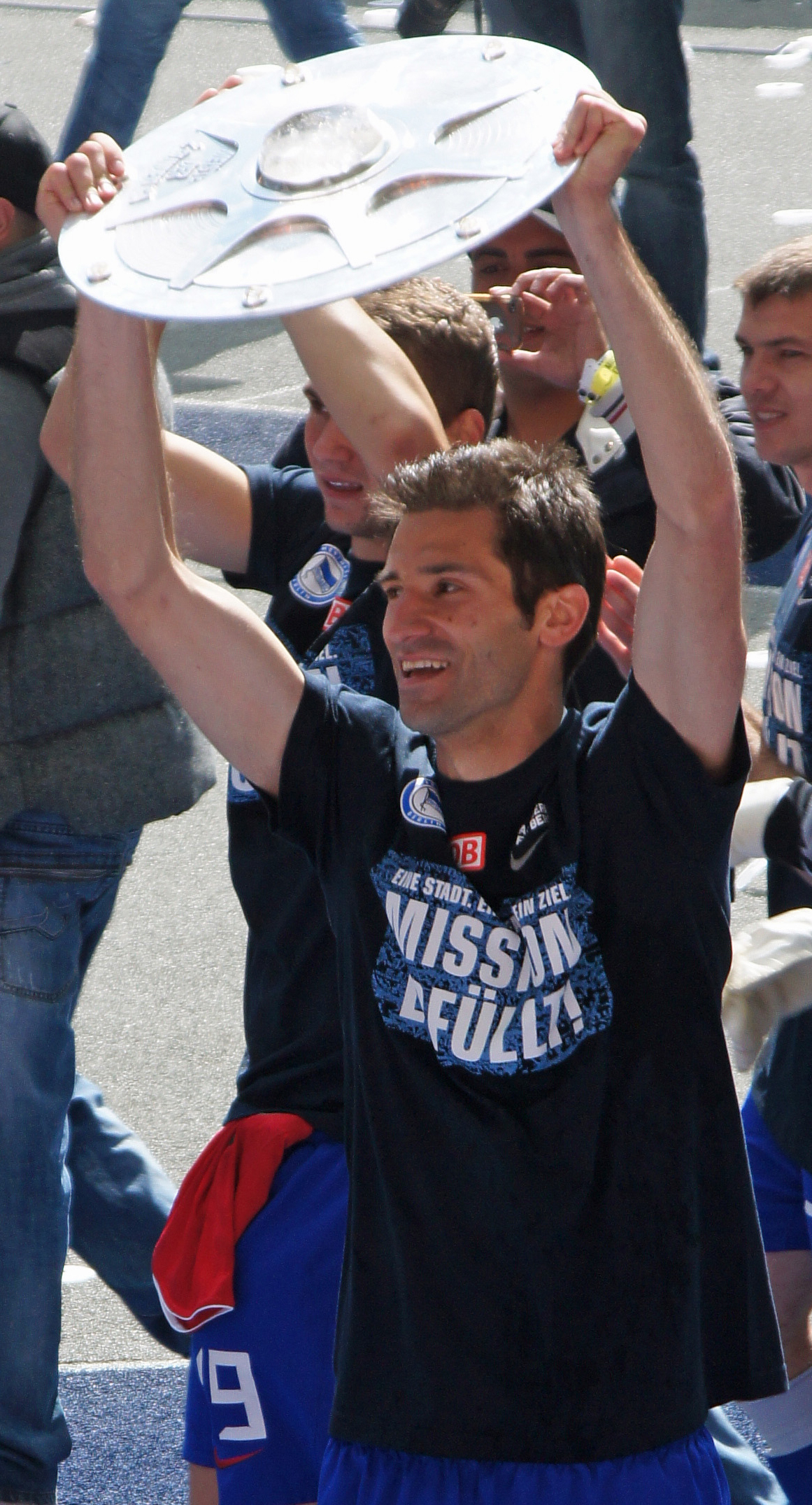 Andre Mijatovic with trophy while playing for Hertha BSC